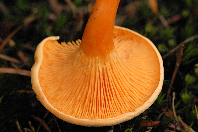 Hygrophoropsis aurantiaca from Commanster, Belgium. The determination of the species shown in this picture has been verified.